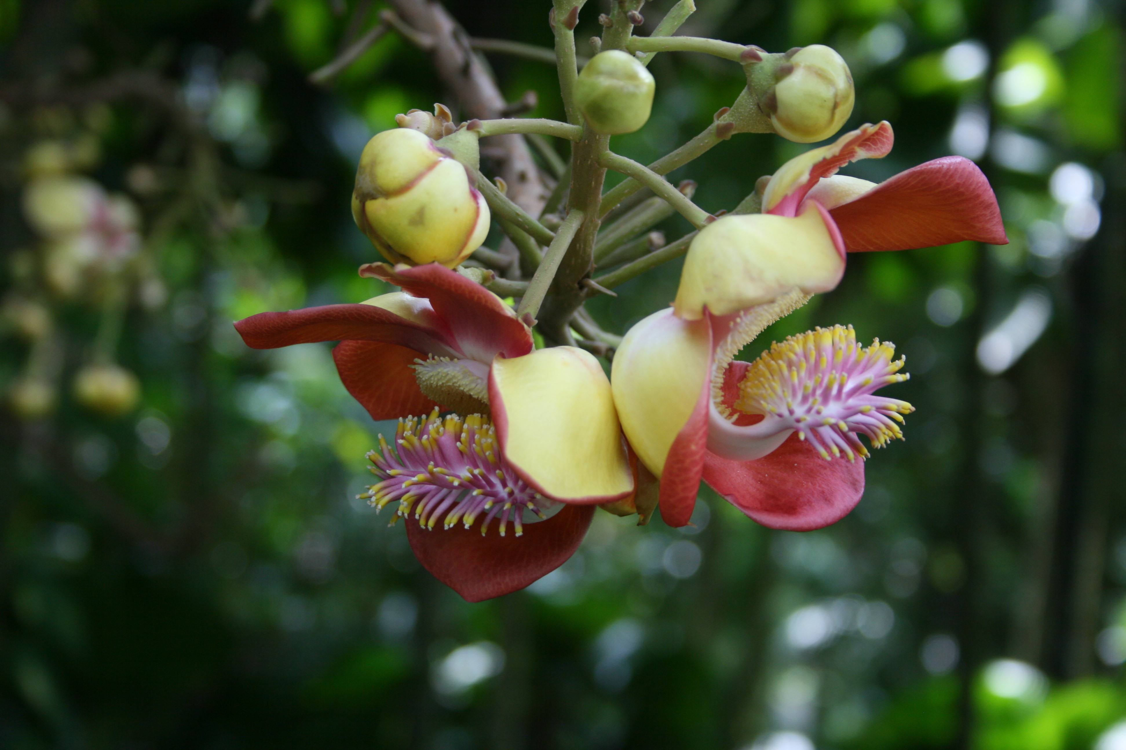 Flora of the South Island, New Zealand